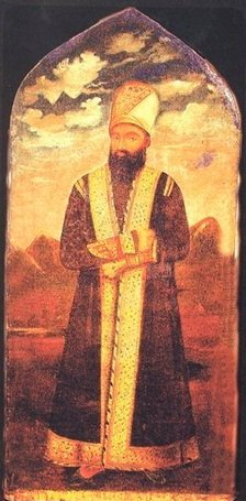 Portret of Huseyngulu Khan Qajar by Irevani. From Sardar Palace of Erivan. Now in Aert museum of Georgia